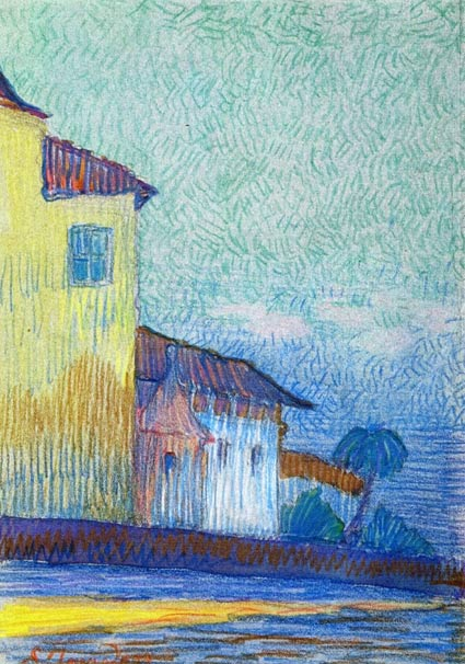 Palm-Tree-in-Brittany